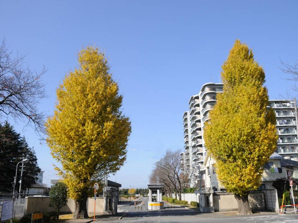 Camp shimosizu,JGSDF